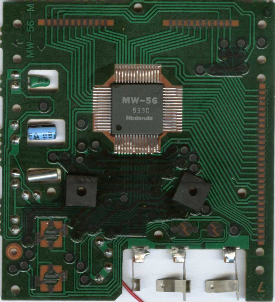 PCB scan of a Mario Bros. Game & Watch handheld.